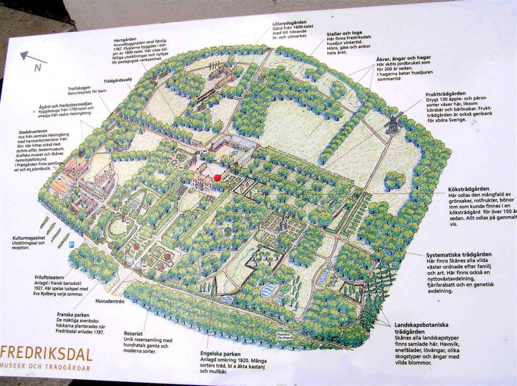 Photo: Bengt Olof Åradsson